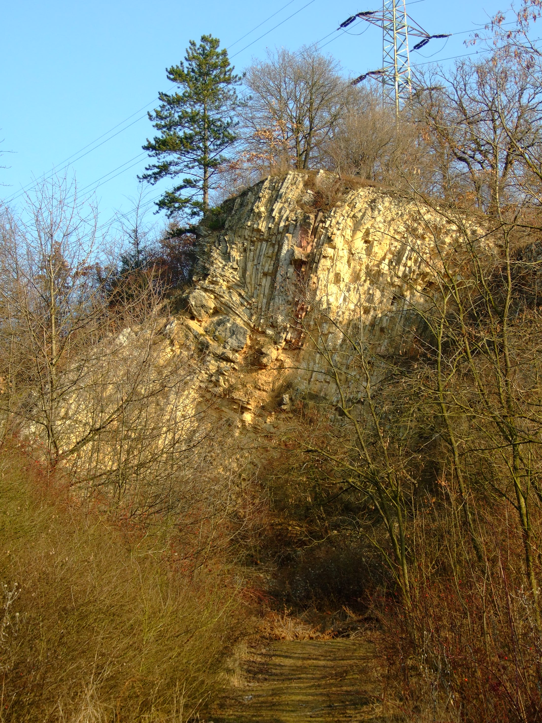 A rock near Vonoklasy village in Český kras protected landscape area, Central Bohemian region, CZhelp